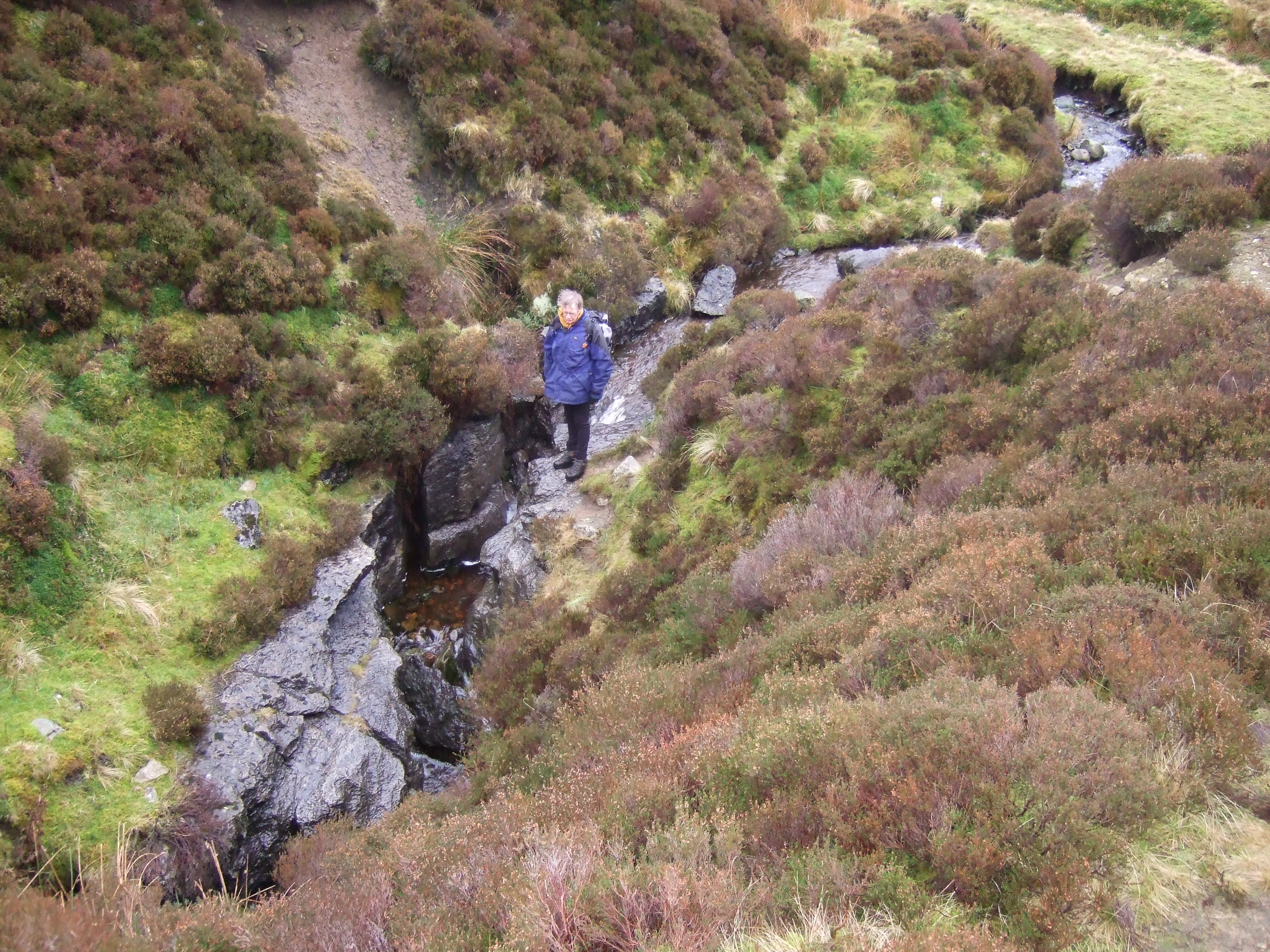 Lost John's Cave entrance stream